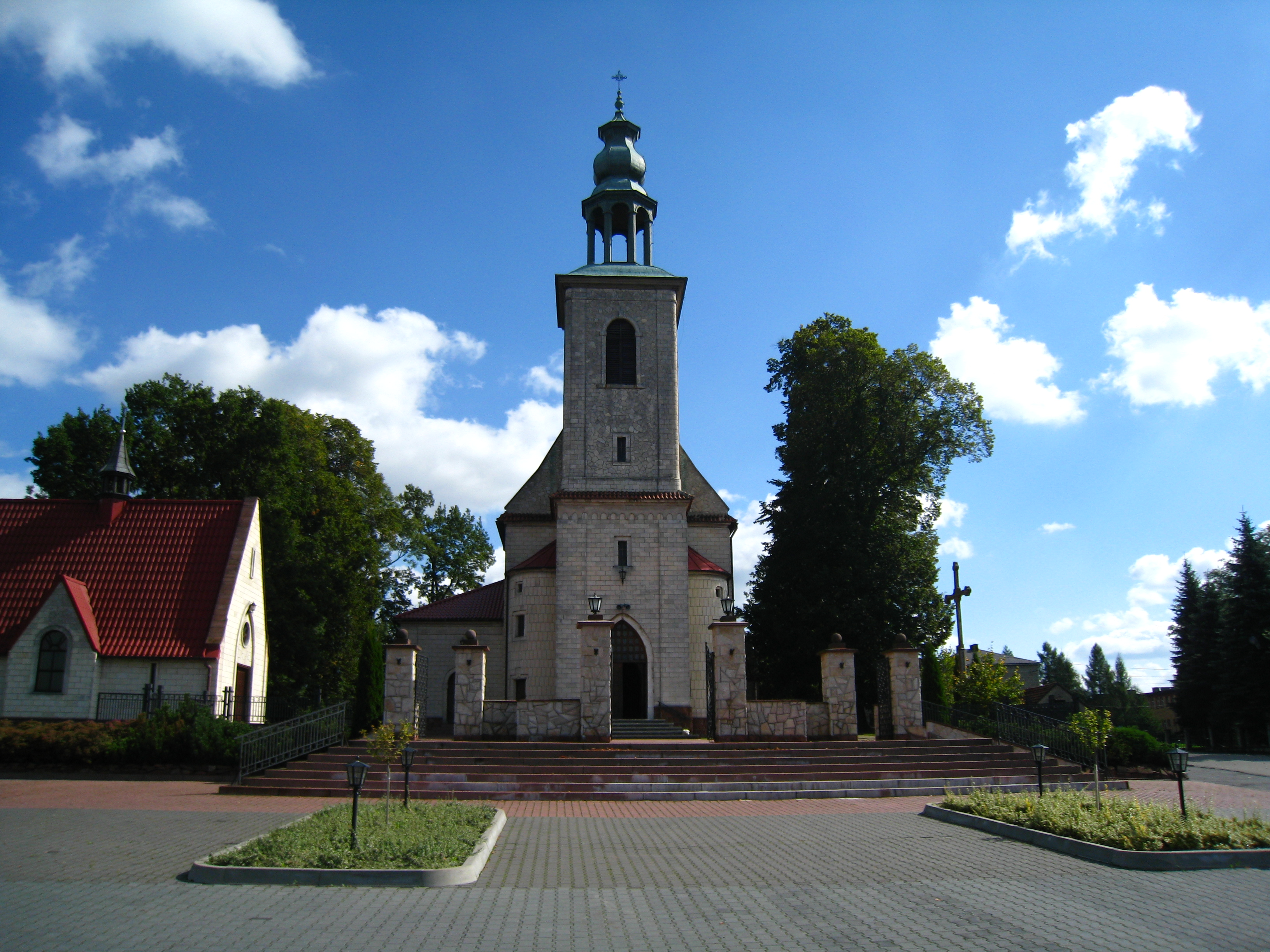 Church in Golaczewy, Lesser Poland Voivodeship, Poland